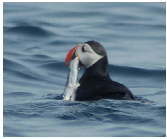 An Atlantic Puffin (Fratercula arctica) with a capelin (Mallotus villosus) in the sea off Bay Bulls, Newfoundland.